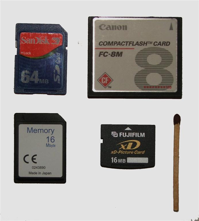 some flash memory cards